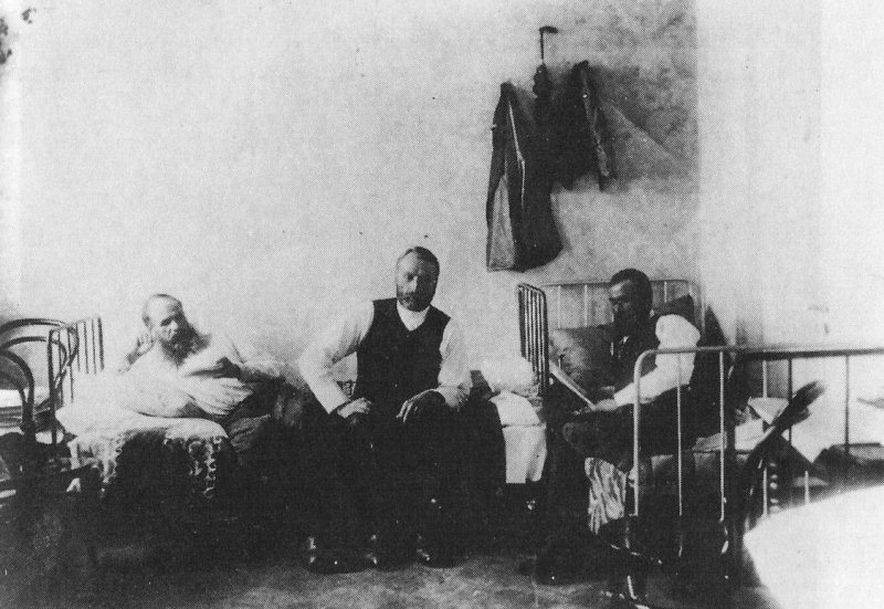 The picture shows Dostoyevsky 21/22 March 1874 in the guardhouse at the Haymarket. He served there the arrest because of a censorship offense.